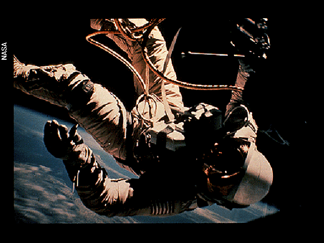 This image is a photograph of astronaut Ed White during a spacewalk. It is part of the image collection on the Voyager Golden Record that is being carried into deep space aboard the Voyager 1 and 2 spacecraft. The low quality and resolution is due to the limitations of the format used on the record but it is what will be seen by an extraterrestrial intelligent life form if the probes ever get discovered.